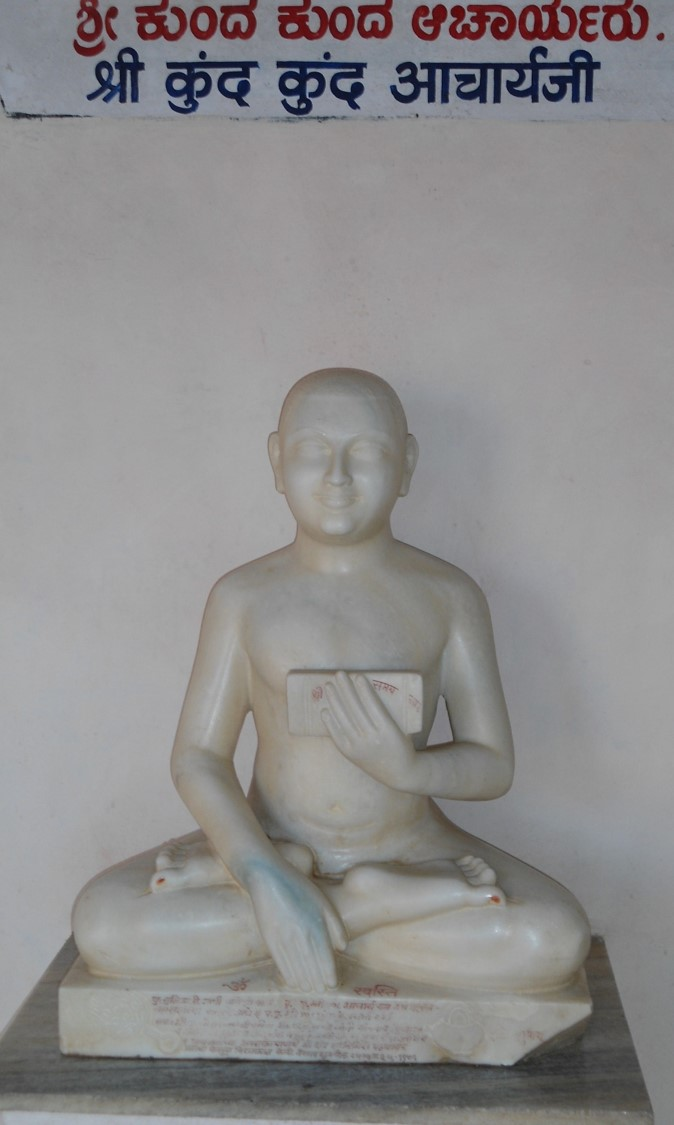 Idol of Acharya KundaKunda, Karnataka. Acarya KundaKunda is the most revered Digambara acharya of the present fifth kaal. He graced India with his divine presence in the first century B.C. Many scholars like Prof.Chakravarti, Ka.Naa.Subramanyam claim that he was the author of the famous tamil book, Tirukkural.